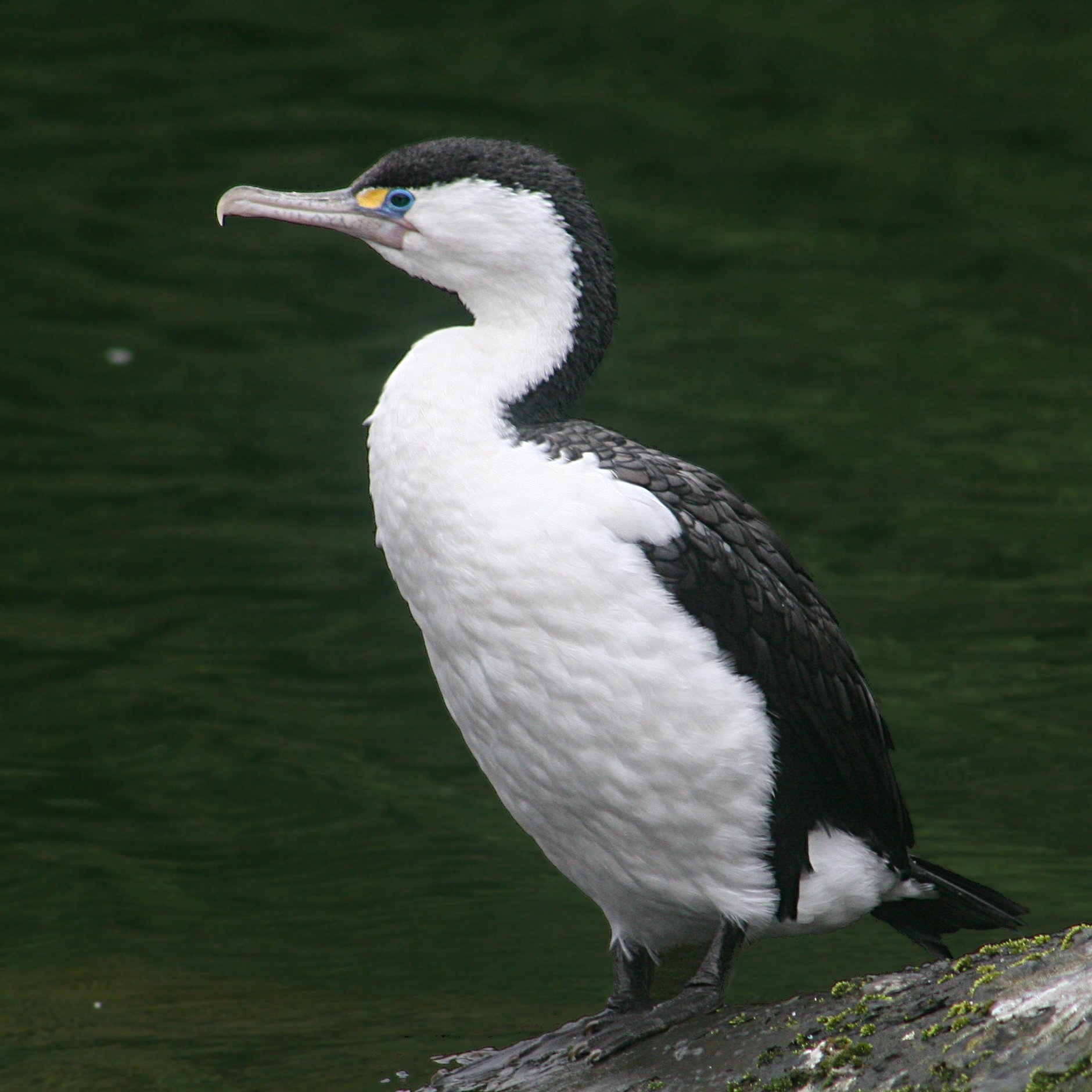 Pied Shag (Phalacrocorax varius). Karori Wildlife Sanctuary, Wellington, New Zealand.